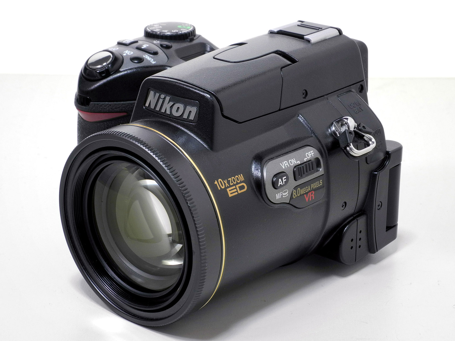 Nikon Coolpix 8800